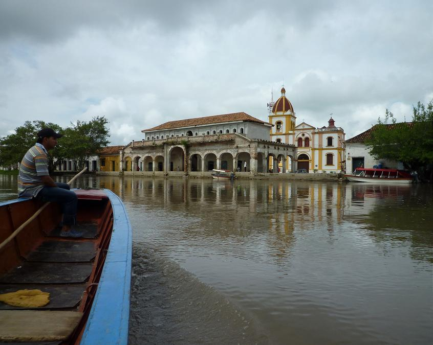 Arriving at Mompox by boat.